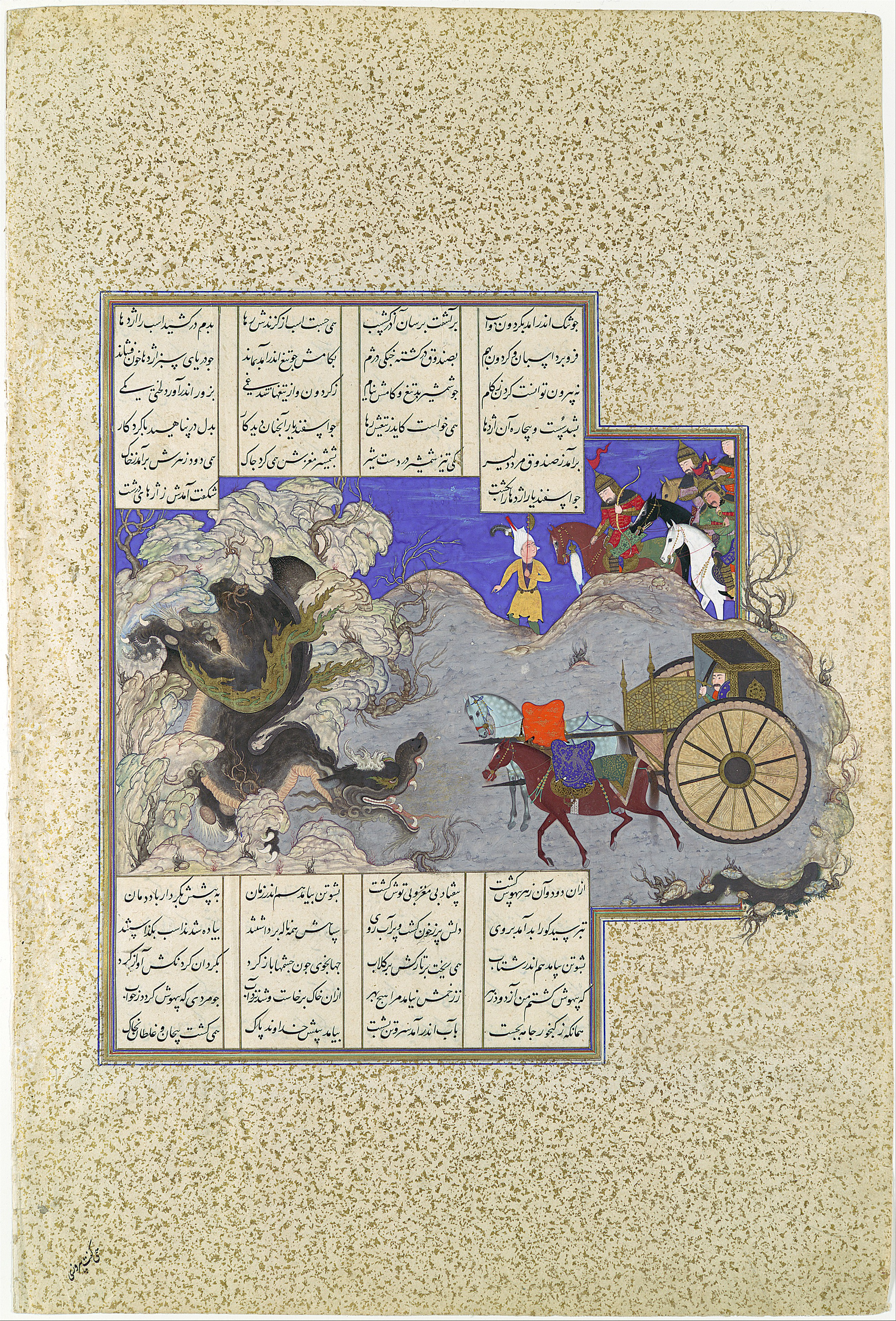 This dramatic image illustrates the third of seven challenges, or courses, that Prince Isfandiyar underwent en route to freeing his sisters from captivity in Turan. Learning that he would encounter a dragon on his perilous path, Isfandiyar ordered a horse-drawn cart with a box in which he could hide and from which spears projected. Here, the dragon has appeared and is sucking the horses into its maw, soon to be impaled on the spears and slashed by Isfandiyar’s sword. The tightly coiled dragon slithering through the rocks and breathing fire lends drama and menace to the scene, which otherwise contains many elements associated with Turkmen painting, such as the writhing bare bushes and squat figures, competently rendered by Qasim ibn 'Ali, an artist from Shiraz who was active at the Safavid court in the second quarter of the sixteenth century.